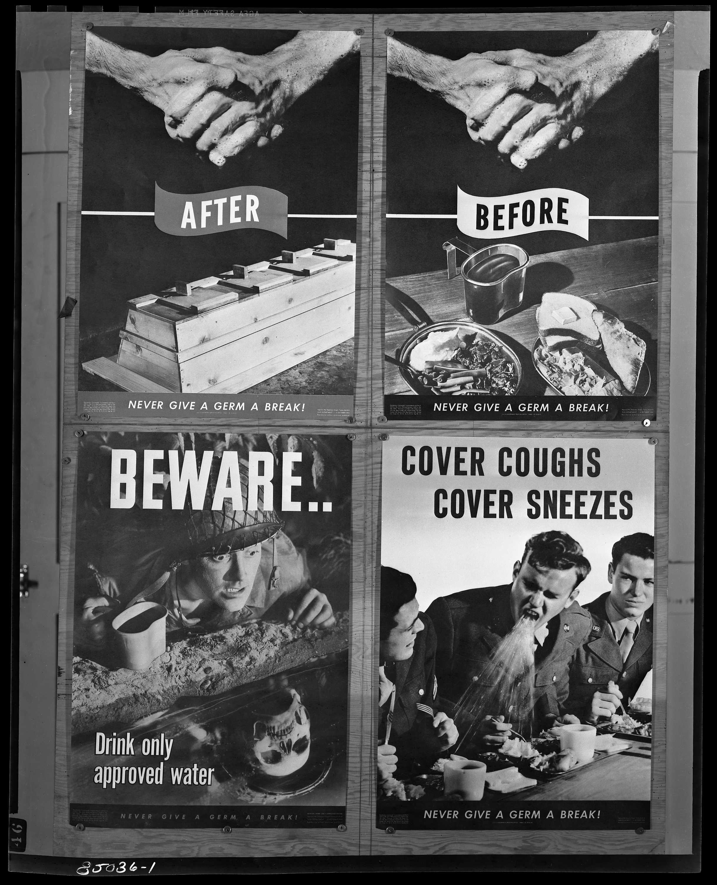 Sanitation and hygiene posters. Never give a germ a break!Captain Hack. [World War 2?] ; Ref:Reeve 085036-1